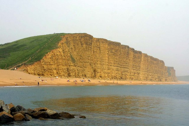 The East Cliff at West Bay